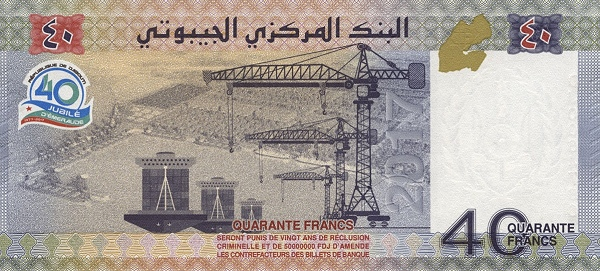 40 Djiboutian Francs in 2017 Reverse Commemorative